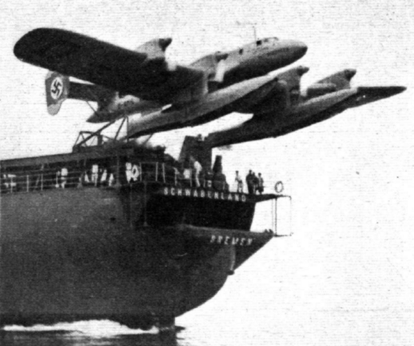 The German Lufthansa Blohm & Voss Ha 139 "Nordmeer" taking off from the catapult ship Schwabenland.